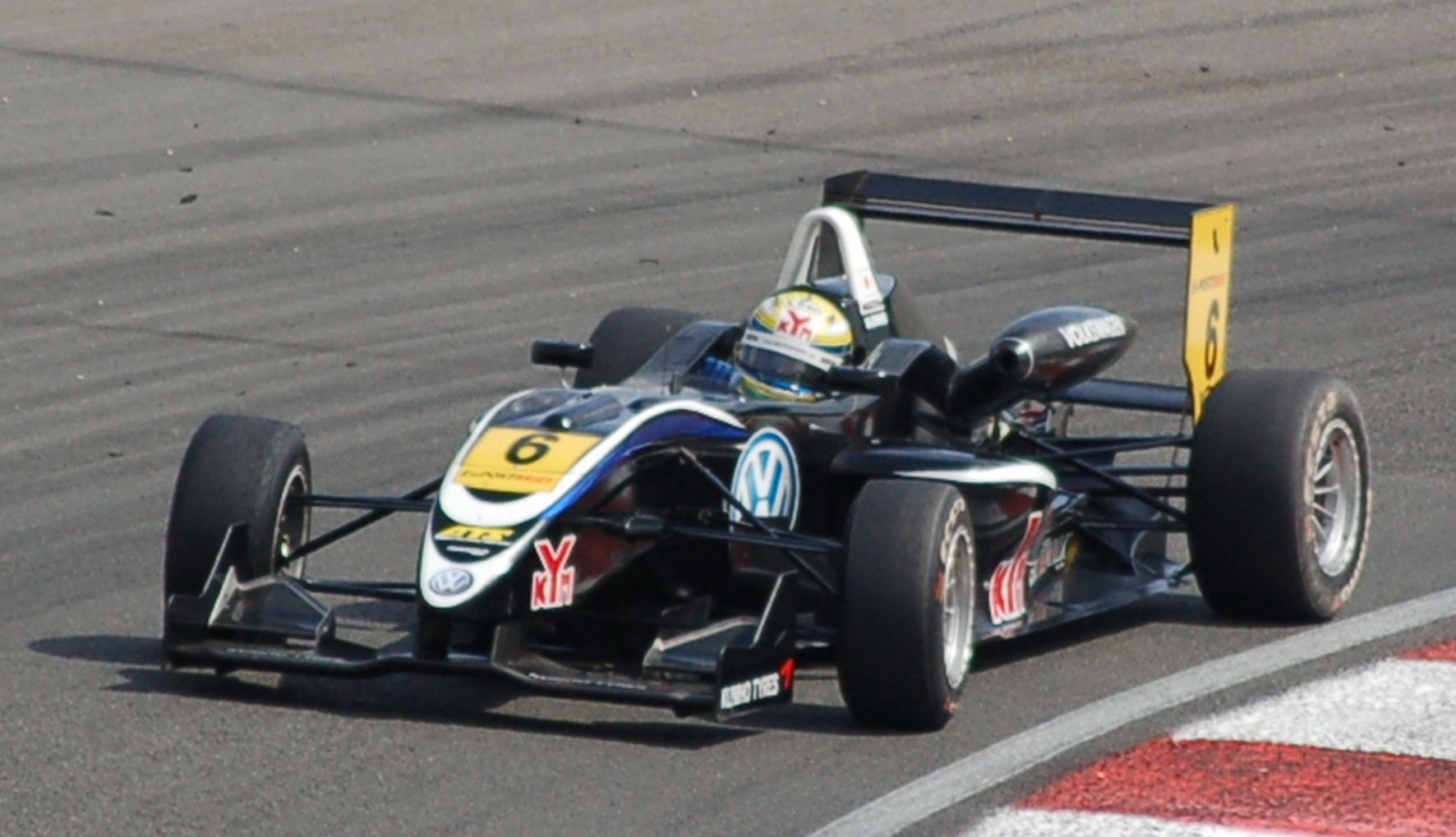 Kimiya Satō at Zandvoort 2011